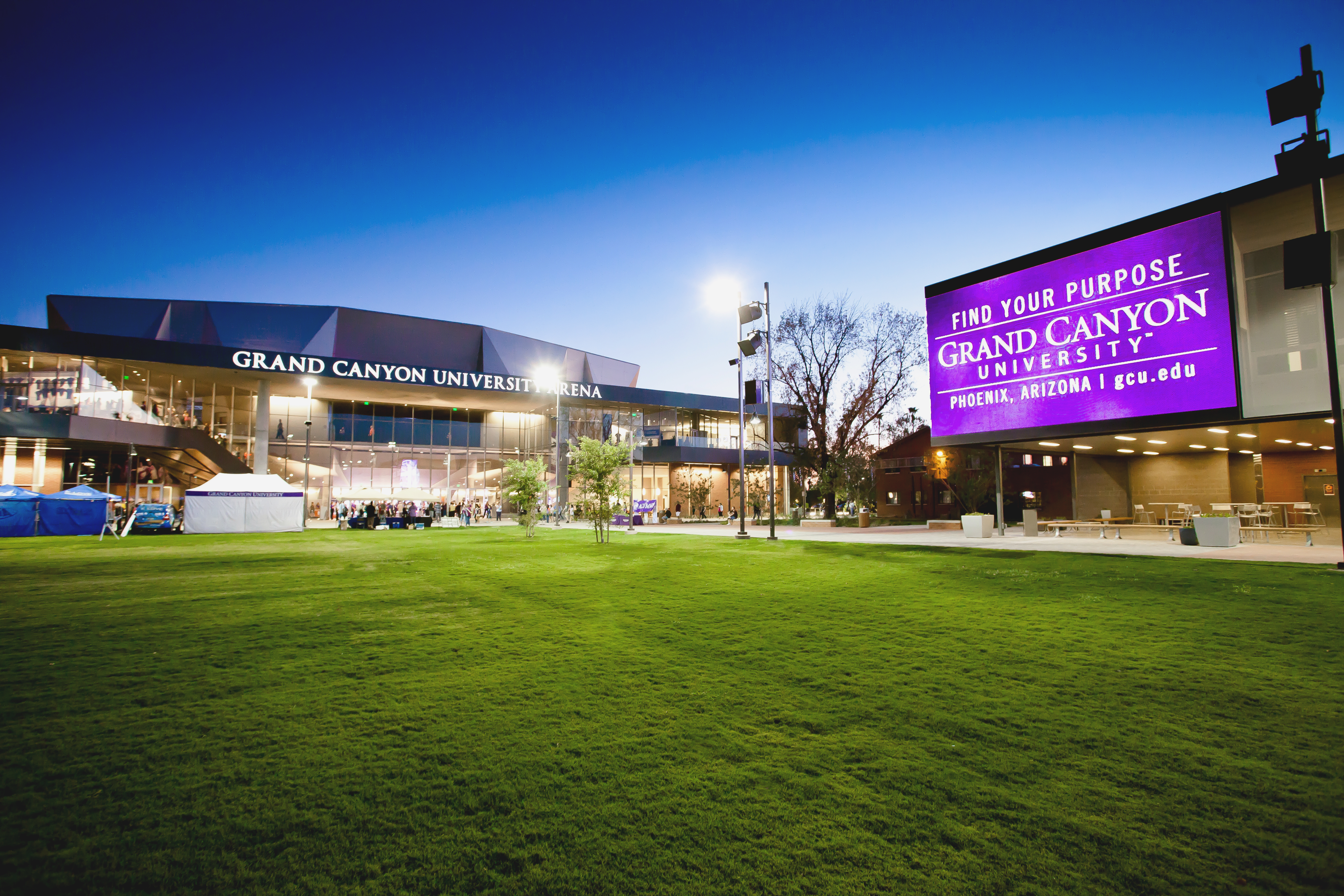 View of the GCU Arena at dusk.